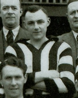 Photograph of Frank Kirwin in 1943